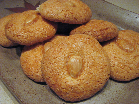 This is a picture of Turkish almond cookies. I took the picture in October 2007. This picture should be included in the article "Acibadem Kurabiyesi".